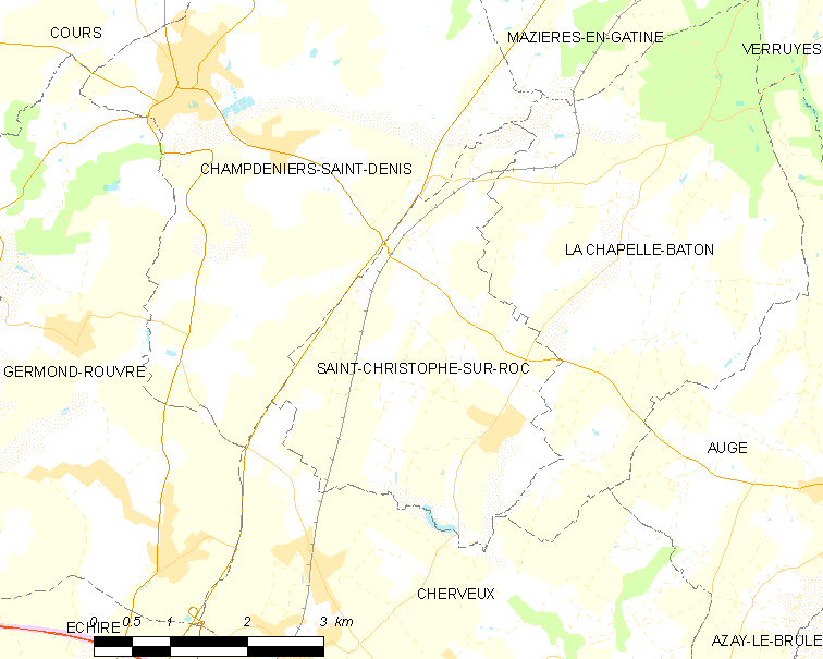 Map of French municipality Saint-Christophe-sur-Roc